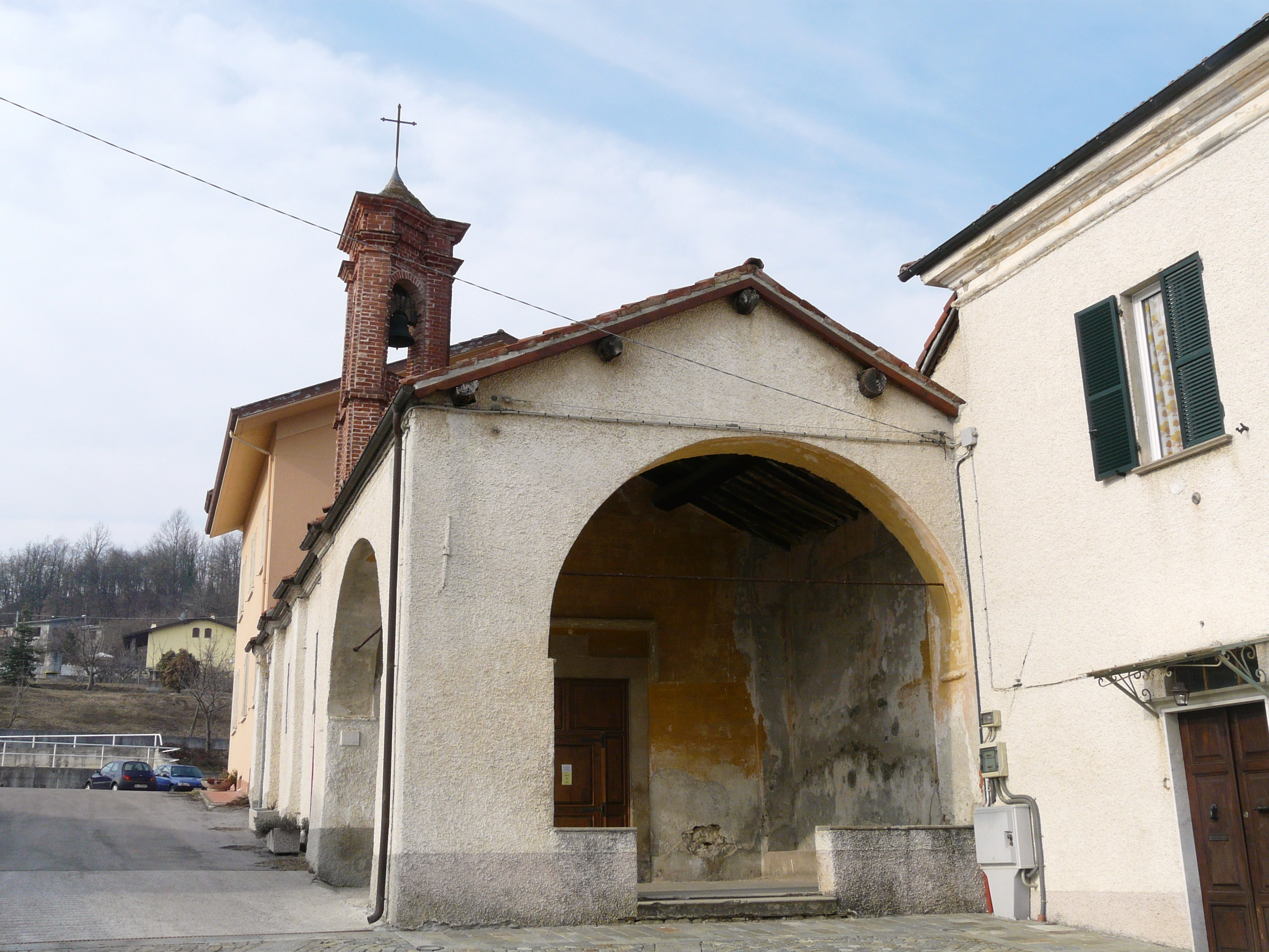 Church"Oratorio dei Disciplinanti" in Cosseria, Italy